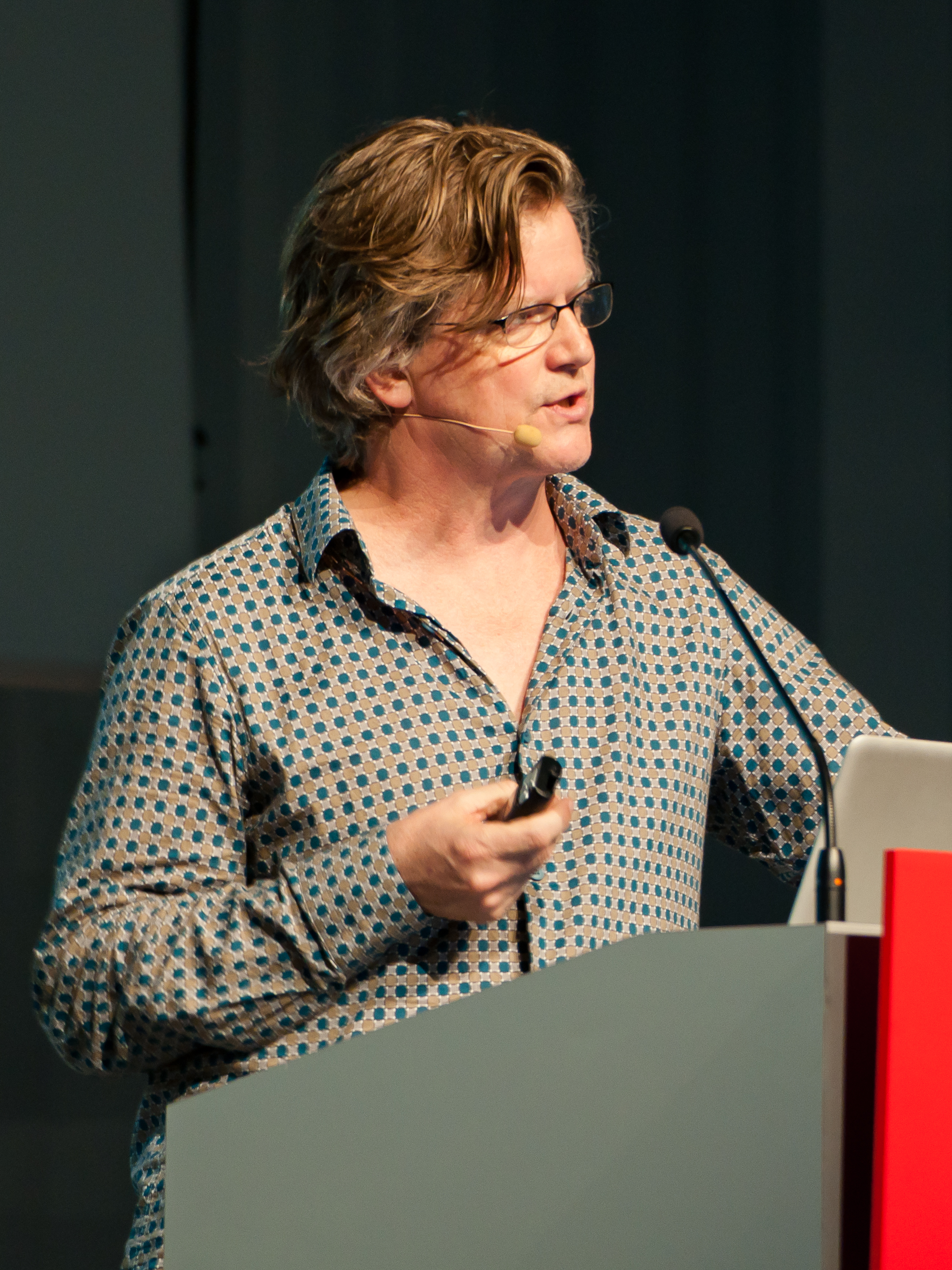 Alex McDowell at FMX 2012. (Haus der Wirtschaft, Stuttgart, Germany)